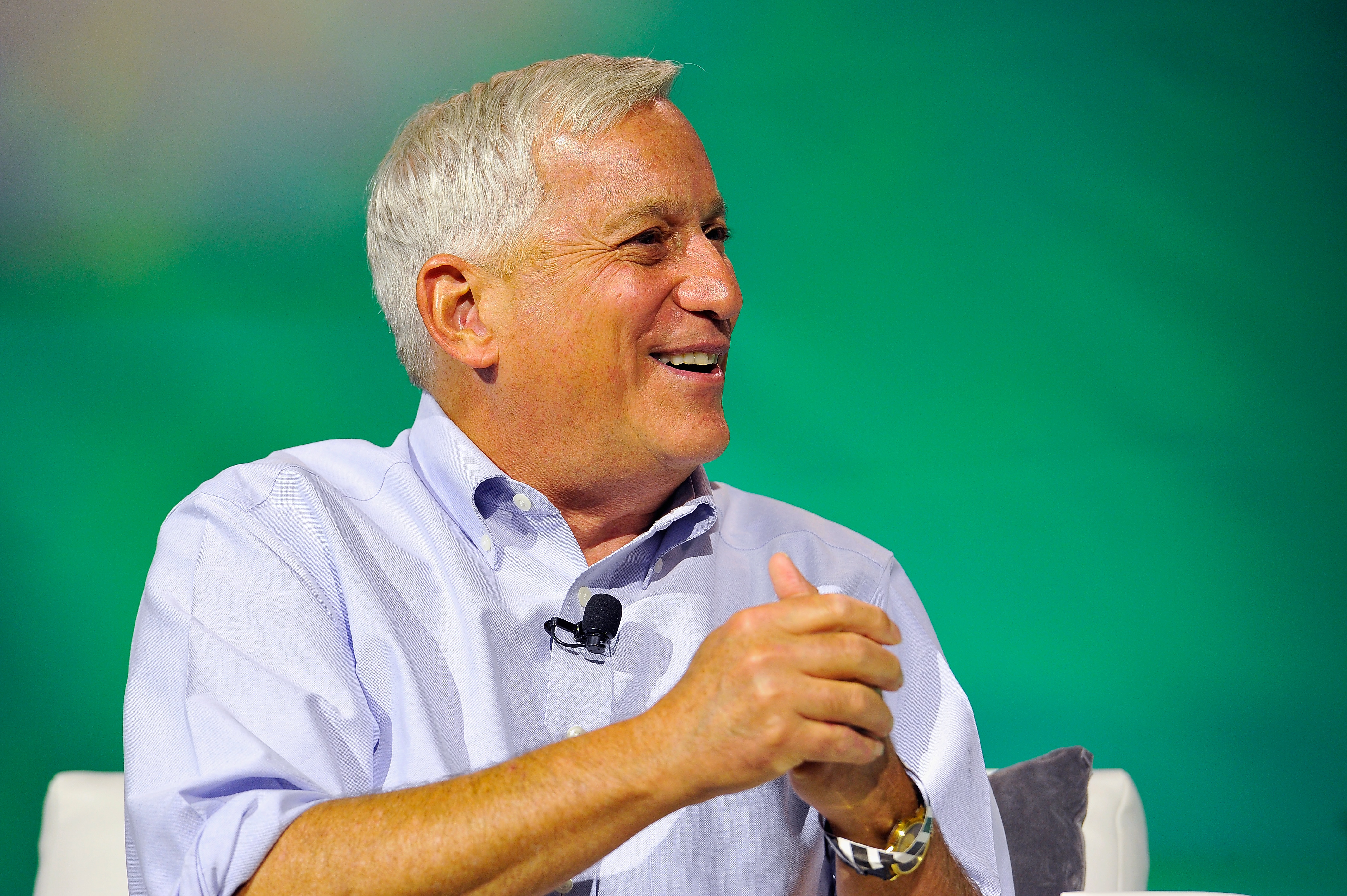 Aspen Institute President and CEO Walter Isaacson speaks onstage at TechCrunch Disrupt at Pier 48 on September 8, 2014 in San Francisco, California